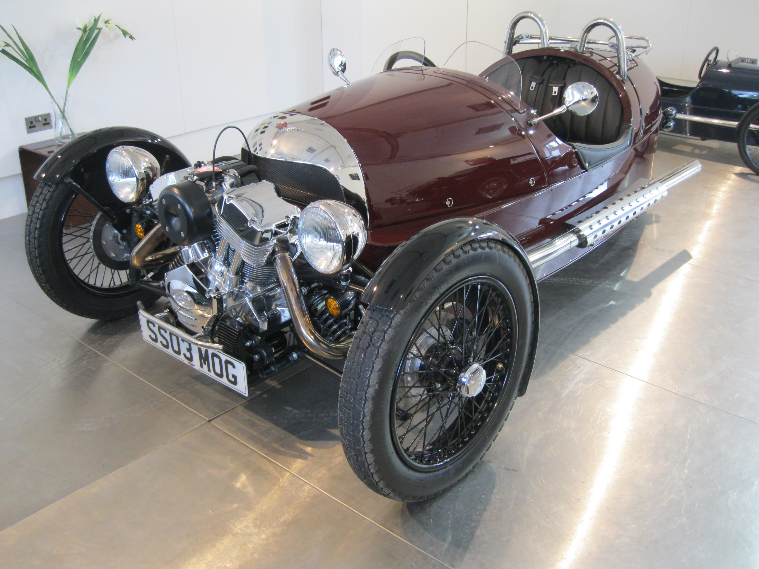 2012 Morgan 3 wheeler